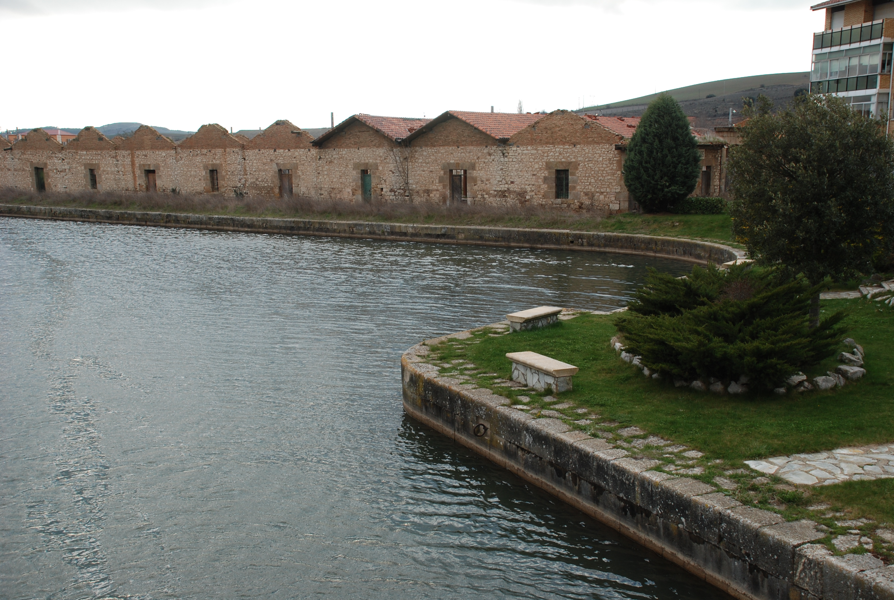 View of the river port of the S.XVIII in the birth of the Canal of Castile in Alar del Rey (Palencia, Castile and León).